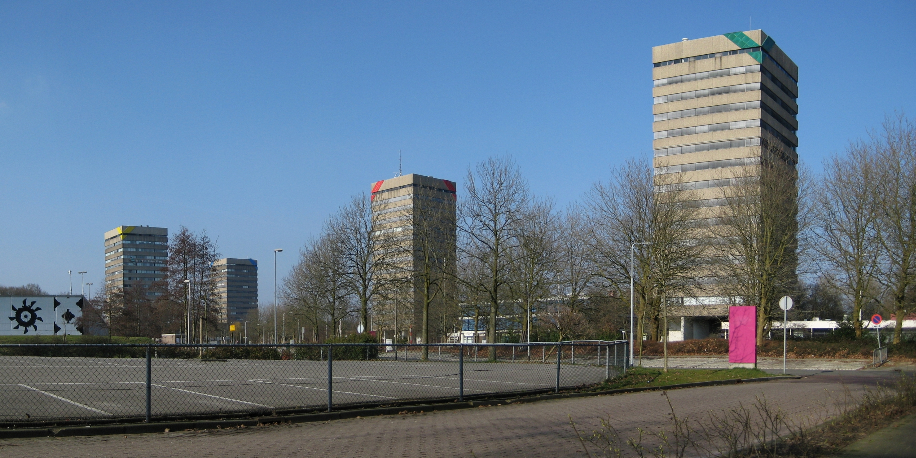 Four office buildings (1971/1980) in the Dutch city of Groningen.